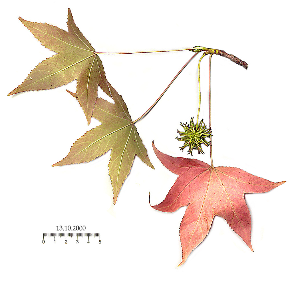 Liquidambar styraciflua leaves